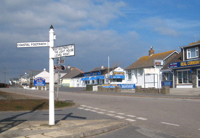 Finger post in Lizard village